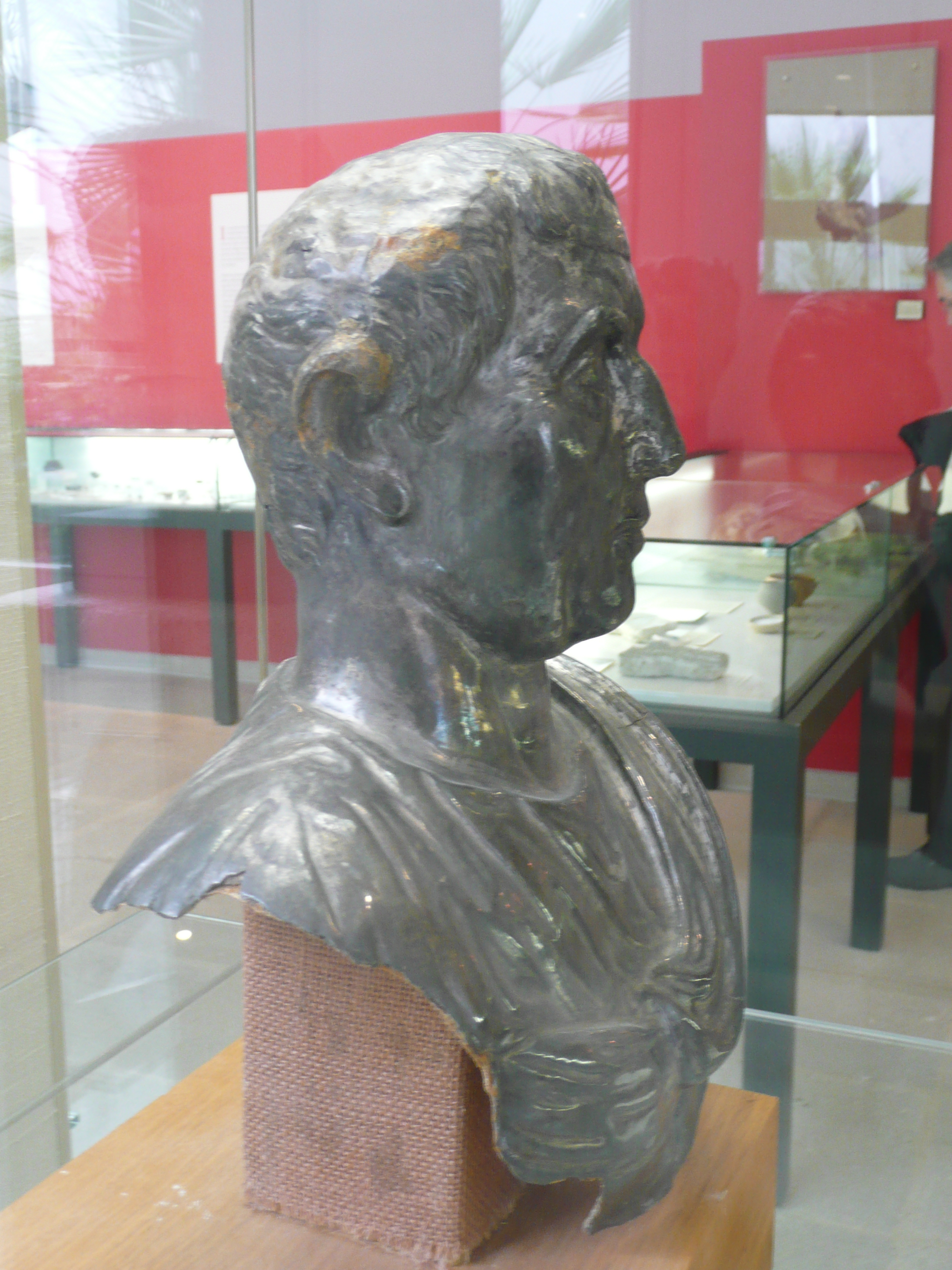 Ancient Roman bust, made from one piece of silver! Found in the "Silver bust house" in Vaison-la-Romaine (France).